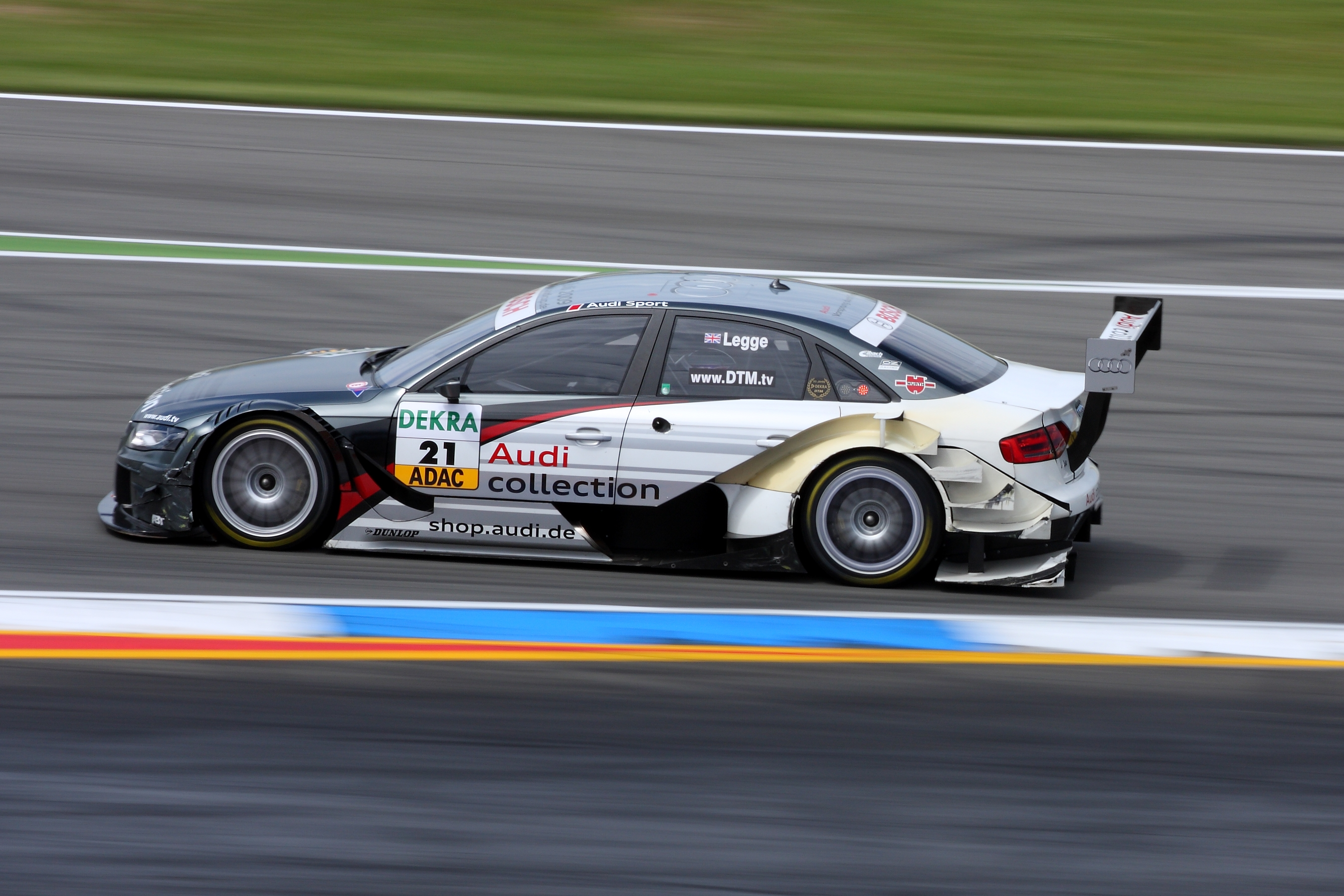 DTM Audi A4, Katherine Legge (driver)